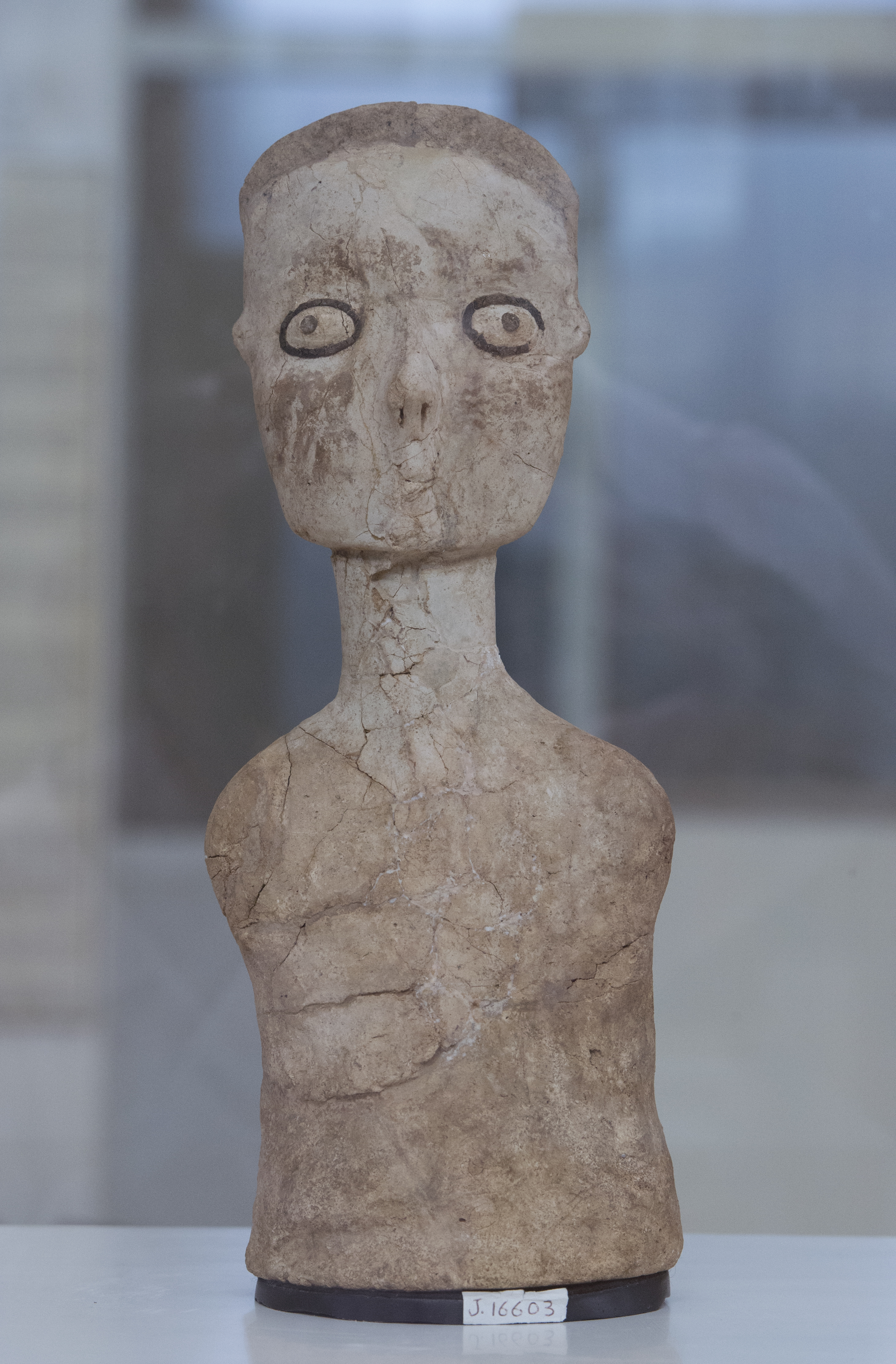 One of pictures taken in the Archaeological Museum of Amman of a number of monumental lime plaster and reed statues dated to the Pre-Pottery Neolithic C period. Dating to between the mid-7th millennium BC and the mid-8th millennium BC, the statues are among the earliest large-scale representations of the human form, and are regarded to be one of the most remarkable specimens of prehistoric art from the Pre-Pottery Neolithic B or C period. Some earlier human statues are known from Upper Mesopotamia, such as the Urfa Man. Although it is held that they represented the ancestors of those in the village, their purpose remains uncertain (text taken from Wikipedia, but in line with information in the museum itself). Some are single, some show pairs. In some cases the picture shows a "close up".